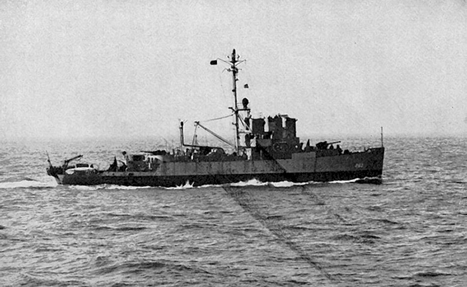 Halftone reproduction of a photograph taken circa 1944-1945. U.S. Navy photo NH 46387